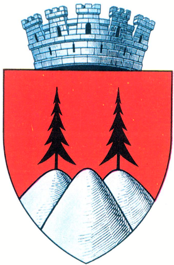 Interwar coat of arms of Fălticeni, Baia County, Kingdom of Romania.